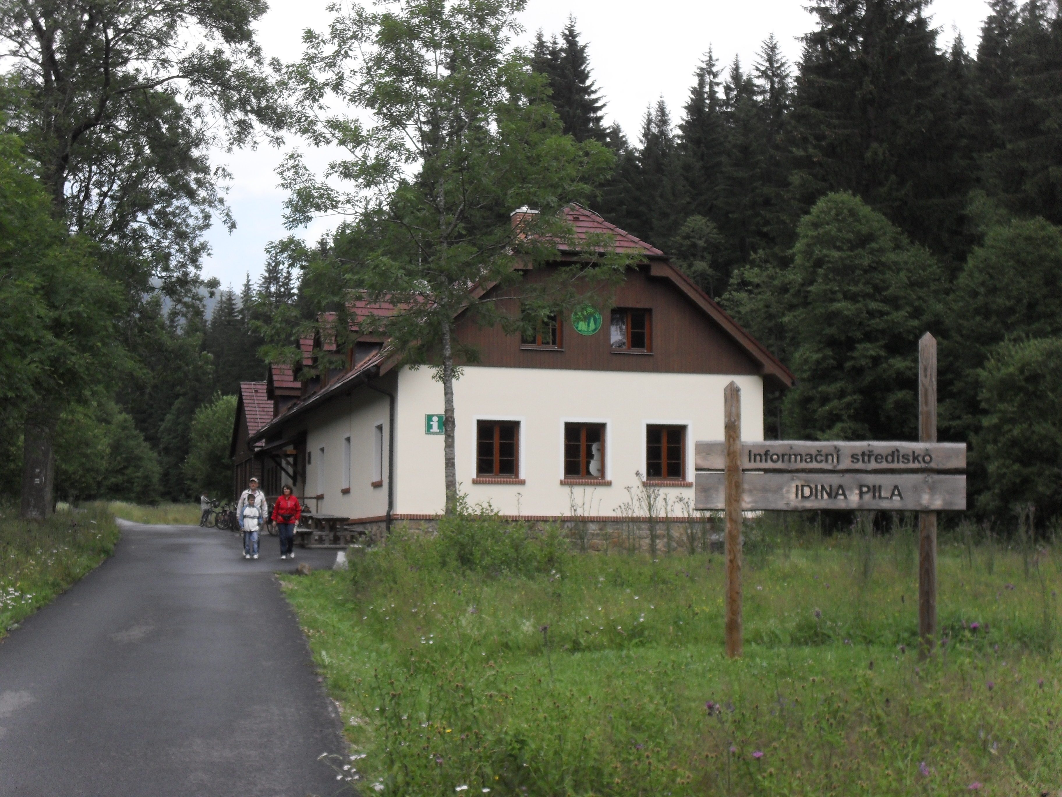 Šumava National Park information centre Idina Pila